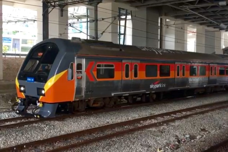 Skypark Link trainset at Subang Jaya station.